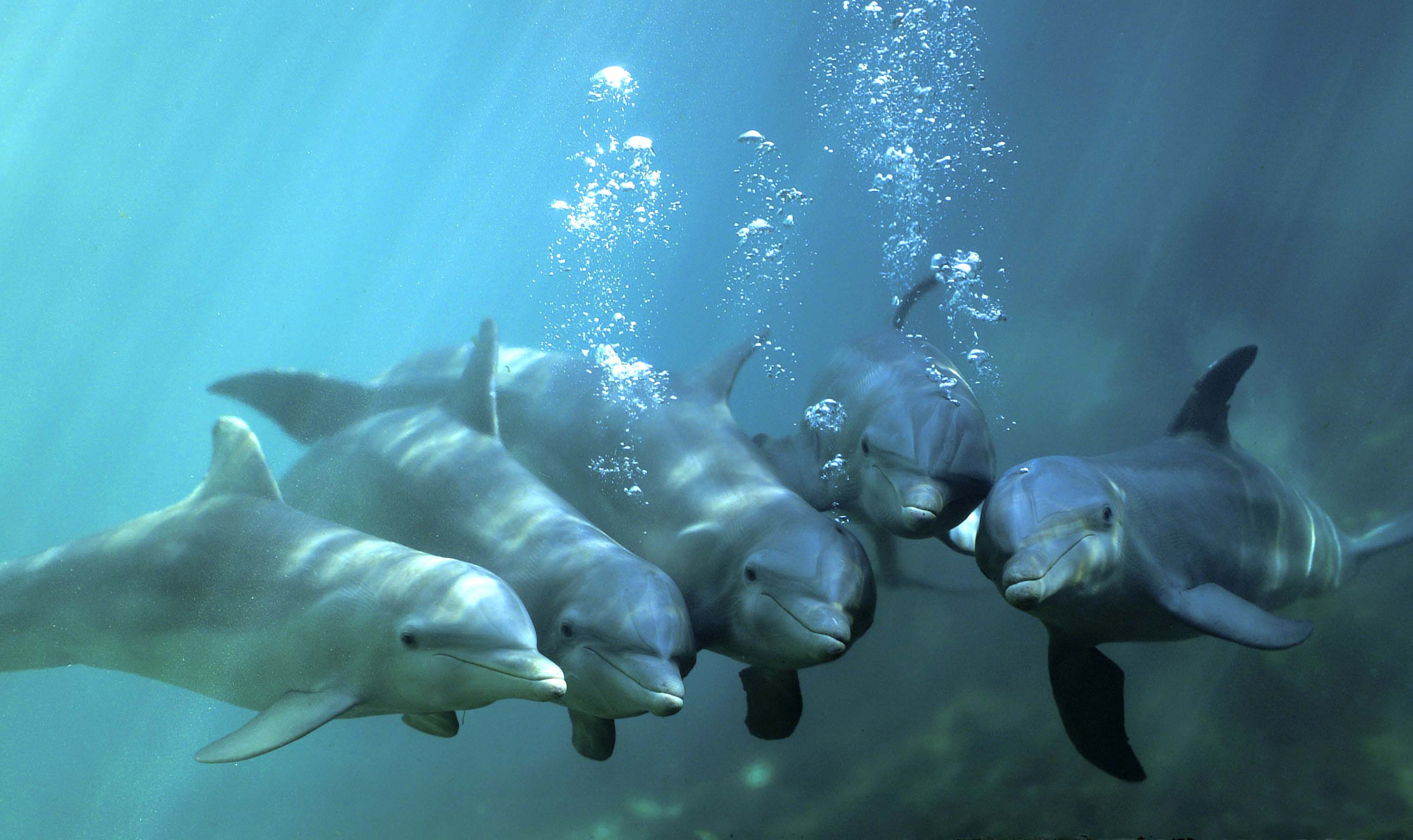 Dolphin group photo made in Xcaret, Mexico